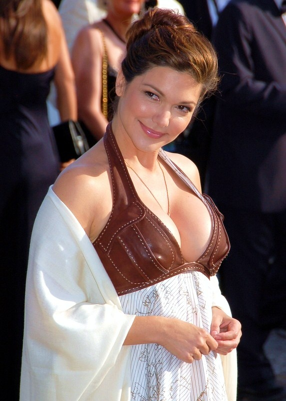 Laura Harring at the Cannes film festival